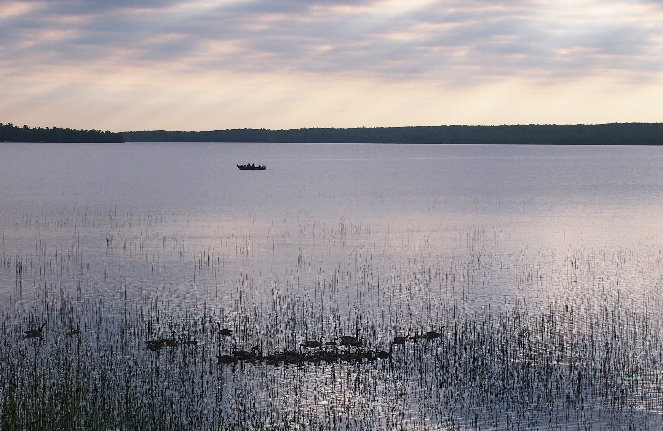 Steamboat Lake, Wilkinson Township, Minnesota, USA. Viewed from the east from the Heartland State Trail.